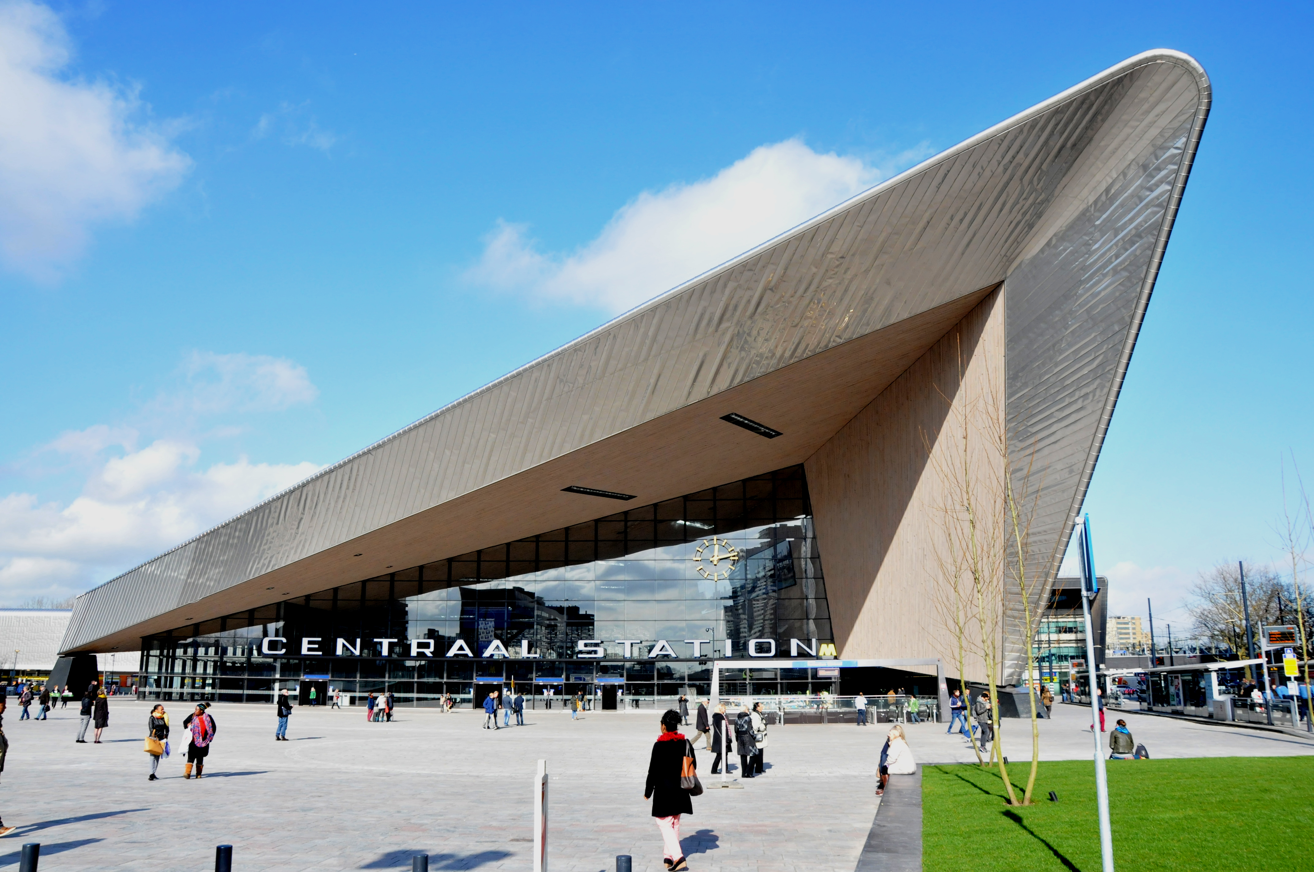 The new station building from Rotterdam Centraal.